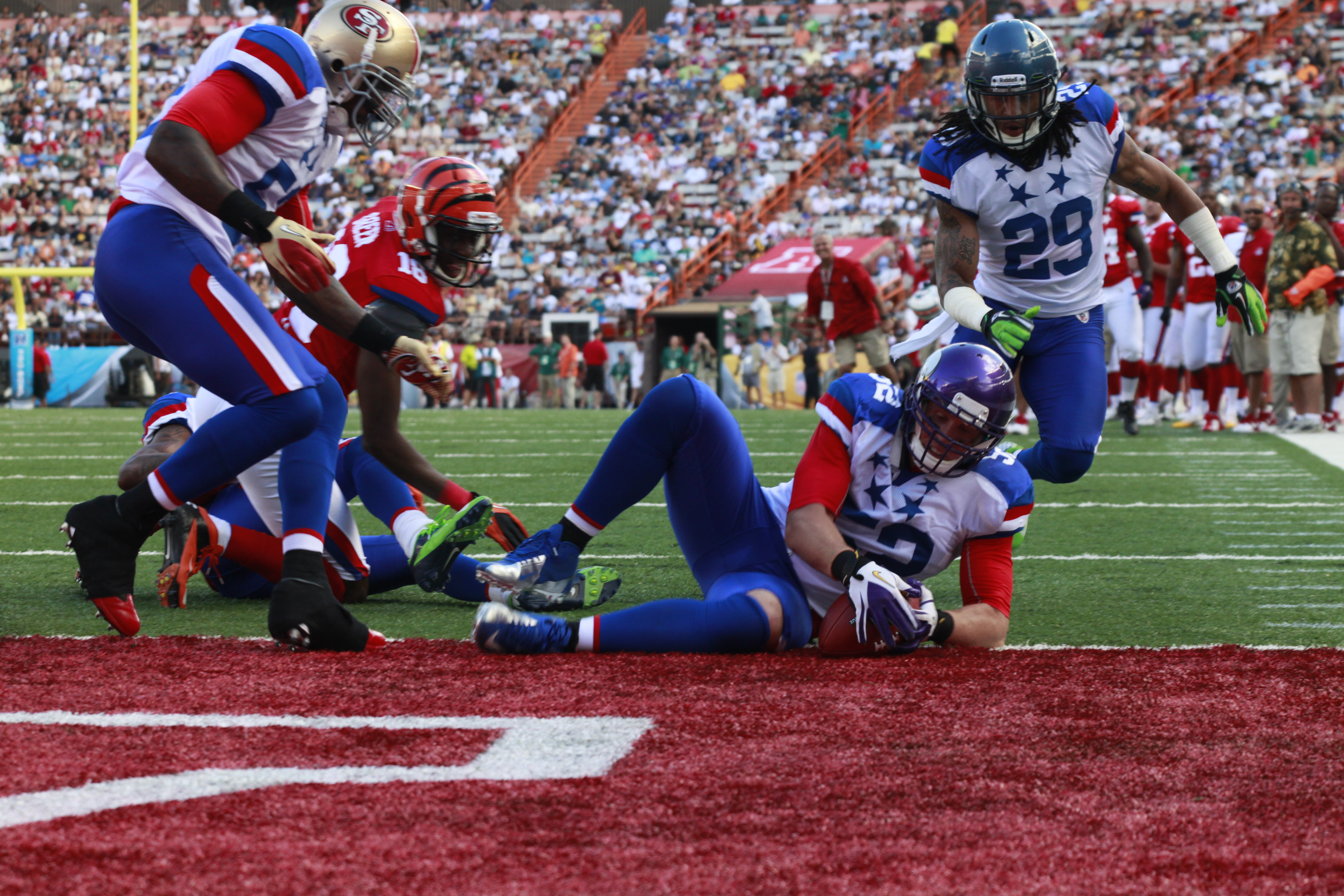 Chad Greenway recovering a fumble at the 2012 pro bowl.